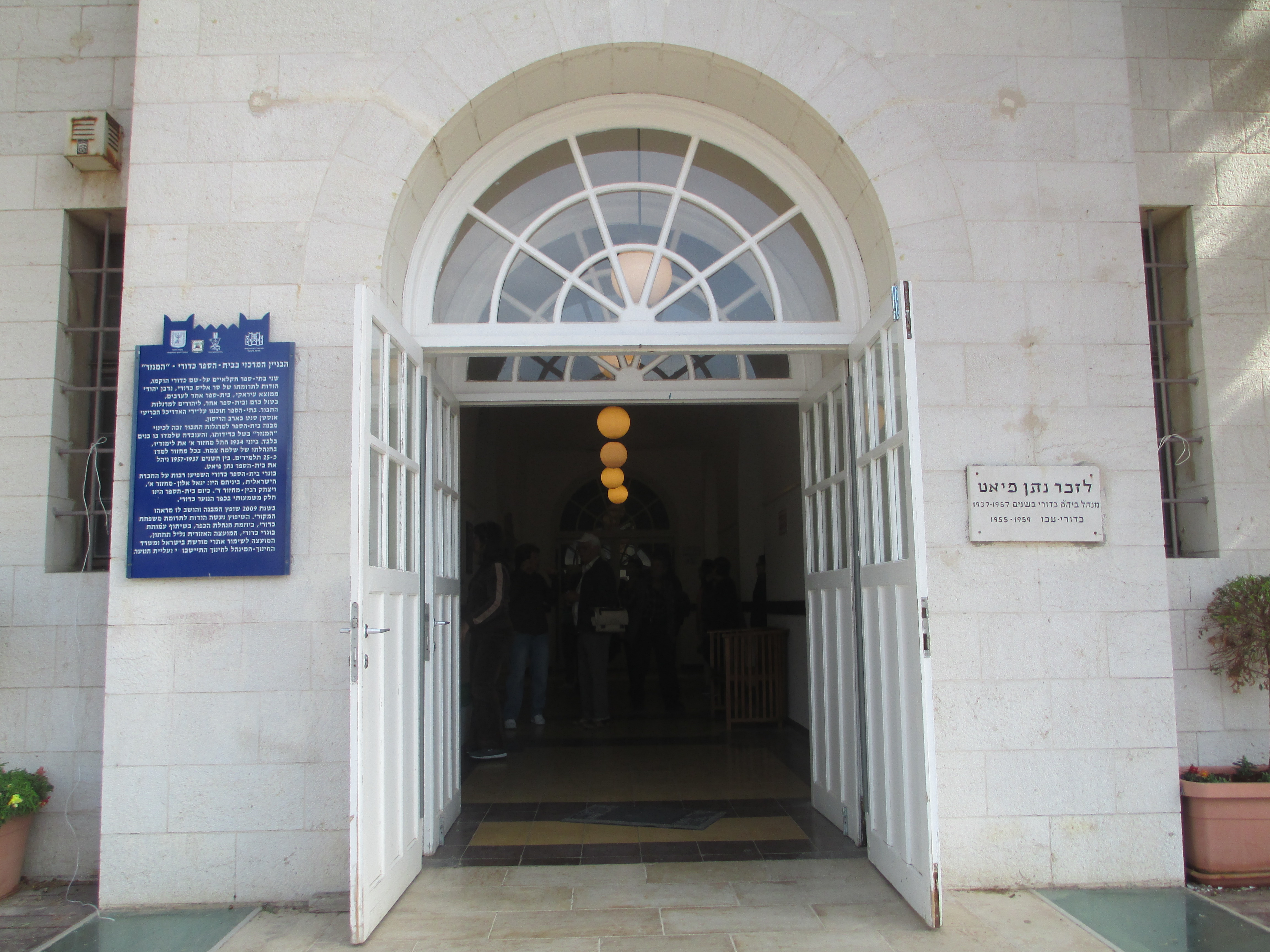 Kadoorie Agricultural School